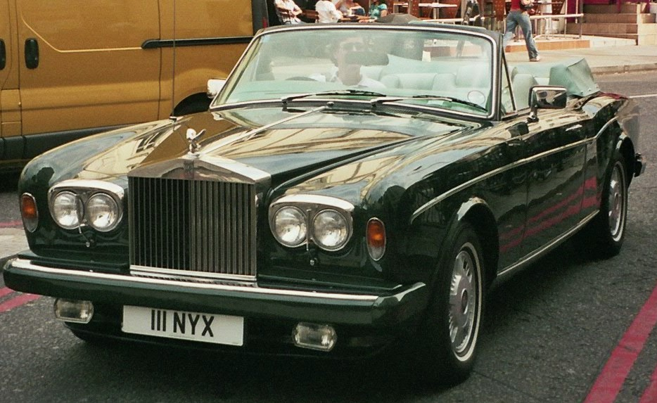 Rolls-Royce Corniche in London